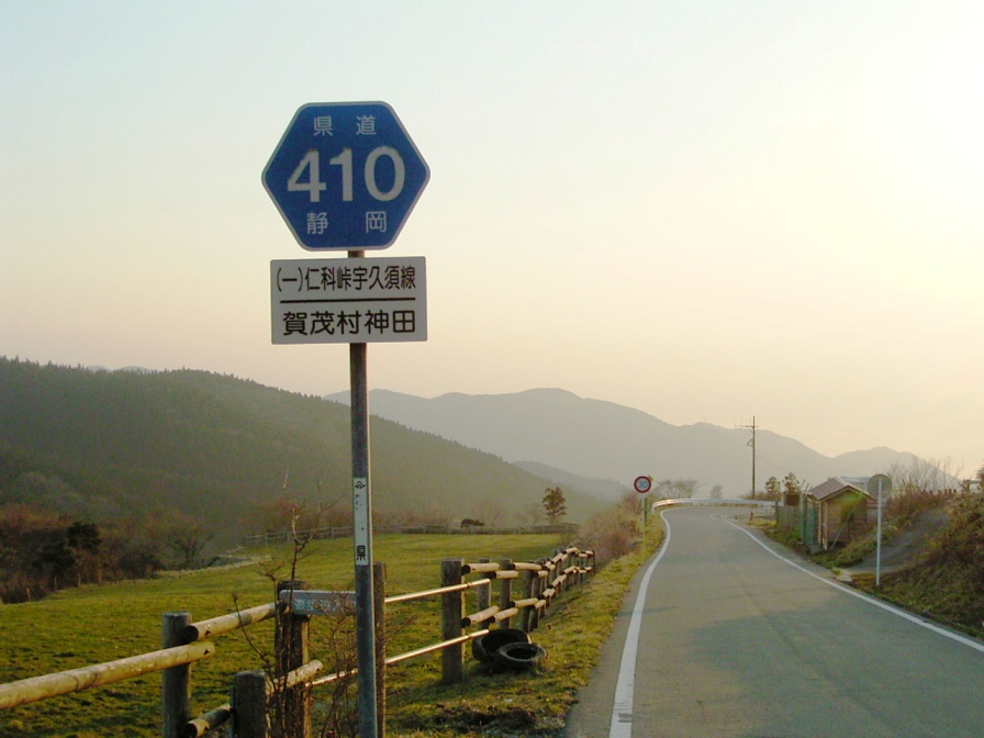 Amagi ranch Shizuoka Japan